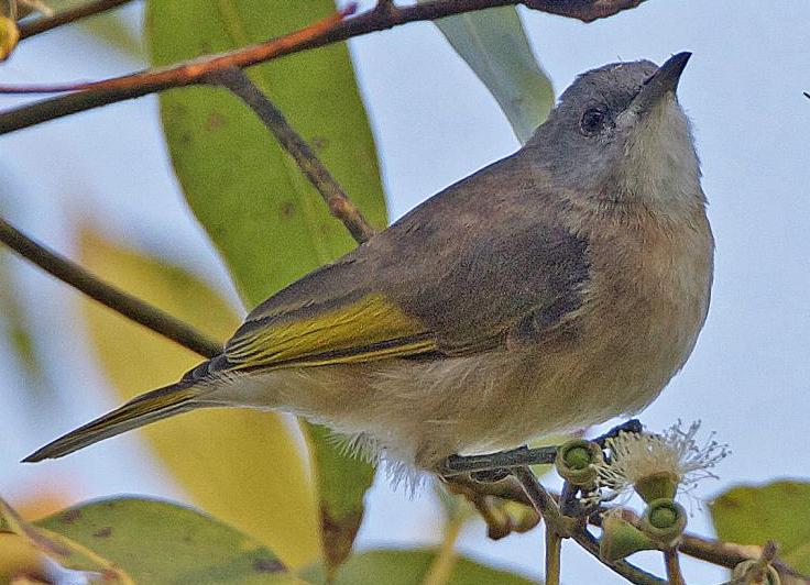 Rufous Banded Honeyeater Conopophila albogularis nominate race Northern territory, Australia August 2010 690V0300